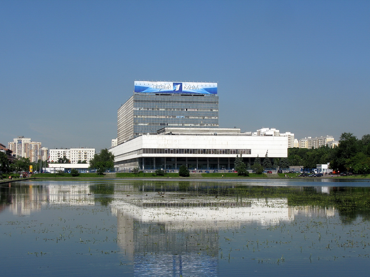 TVcenter_in_Ostankino